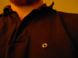 A Gaeilgeoir (an Irish speaker) wearing a Fáinne (a pin badge worn to show fluency in, or a willingness to speak, the Irish Language.) I took this photo of myself using a Concord Digital Camera. I shrunk and resampled it using Frontpage.